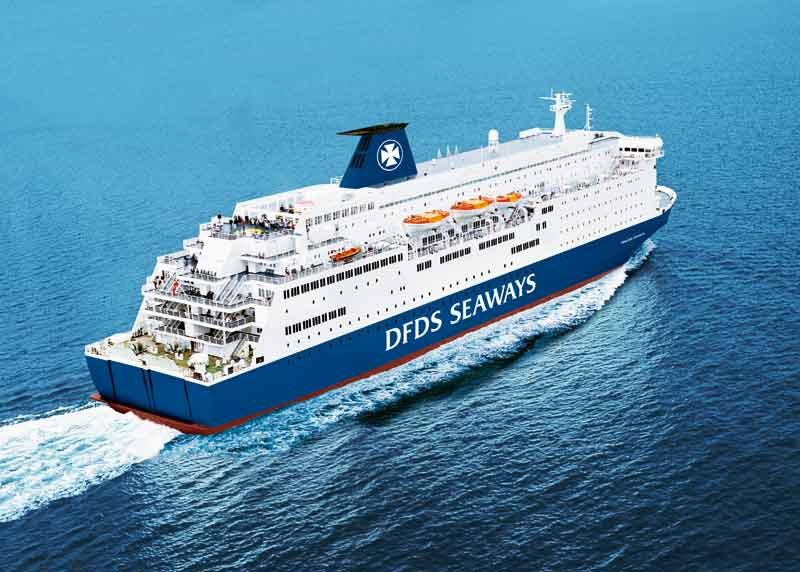 DFDS ferry Princess Seaways